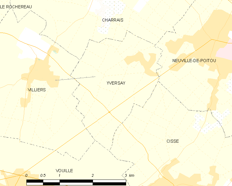 Map of French municipality Yversay